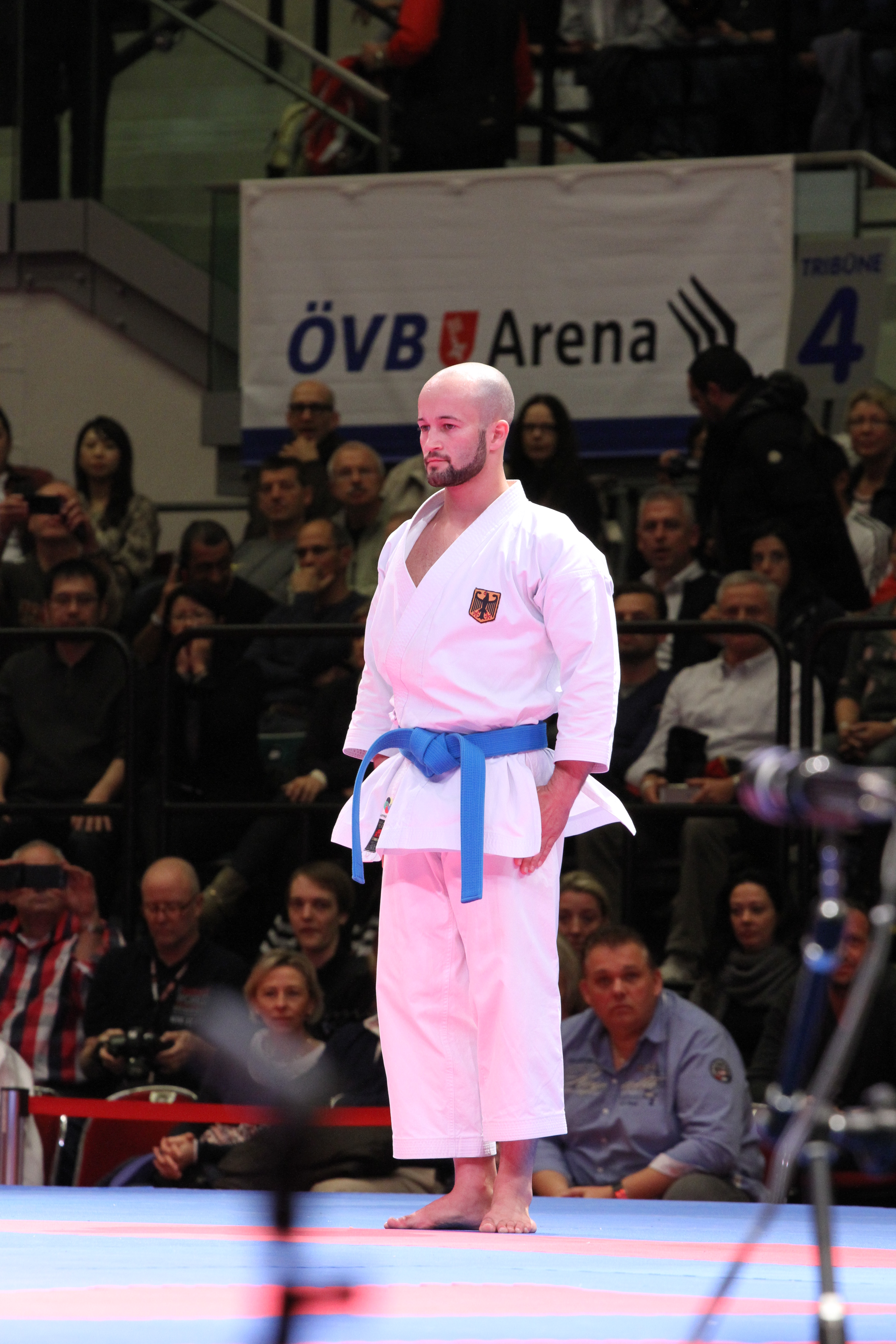 Vize-world-champion Kata men 2014 Ilja Smorguner